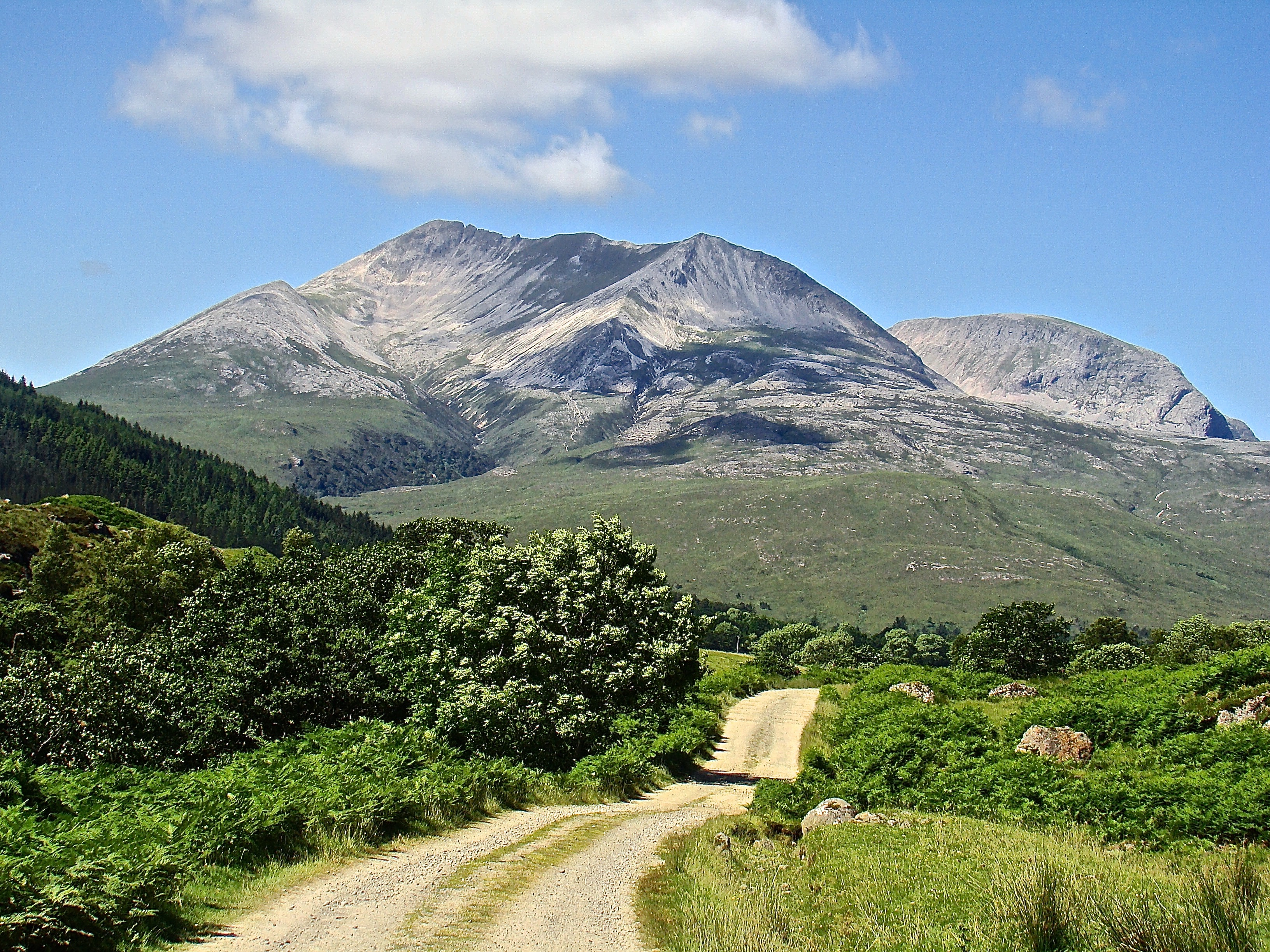 Beinn Eighe from Abhainn Bruachaig. This large track runs alongside Abhainn Bruachaig, between the Heights of Kinlochewe and Incheril (and Kinlochewe).